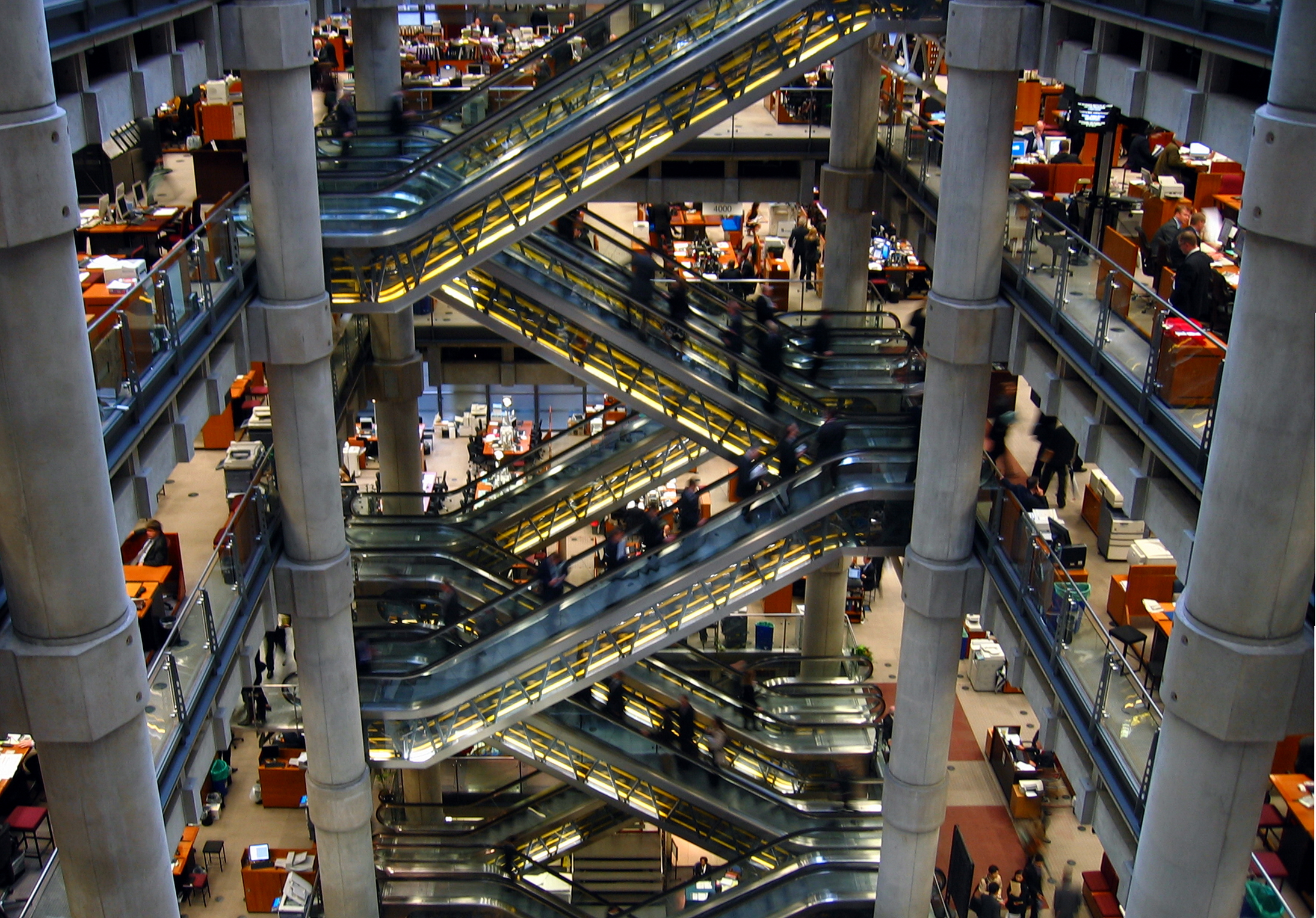 Inside the Lloyd's of London building. "syndicates @ work."